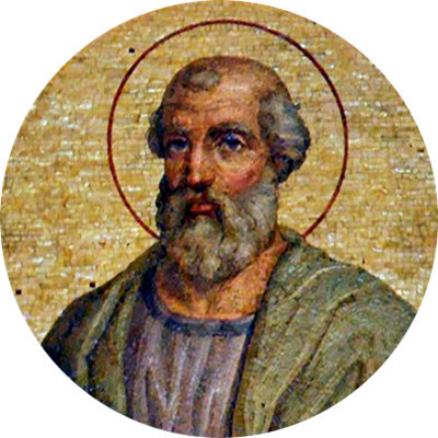 Pope Linus